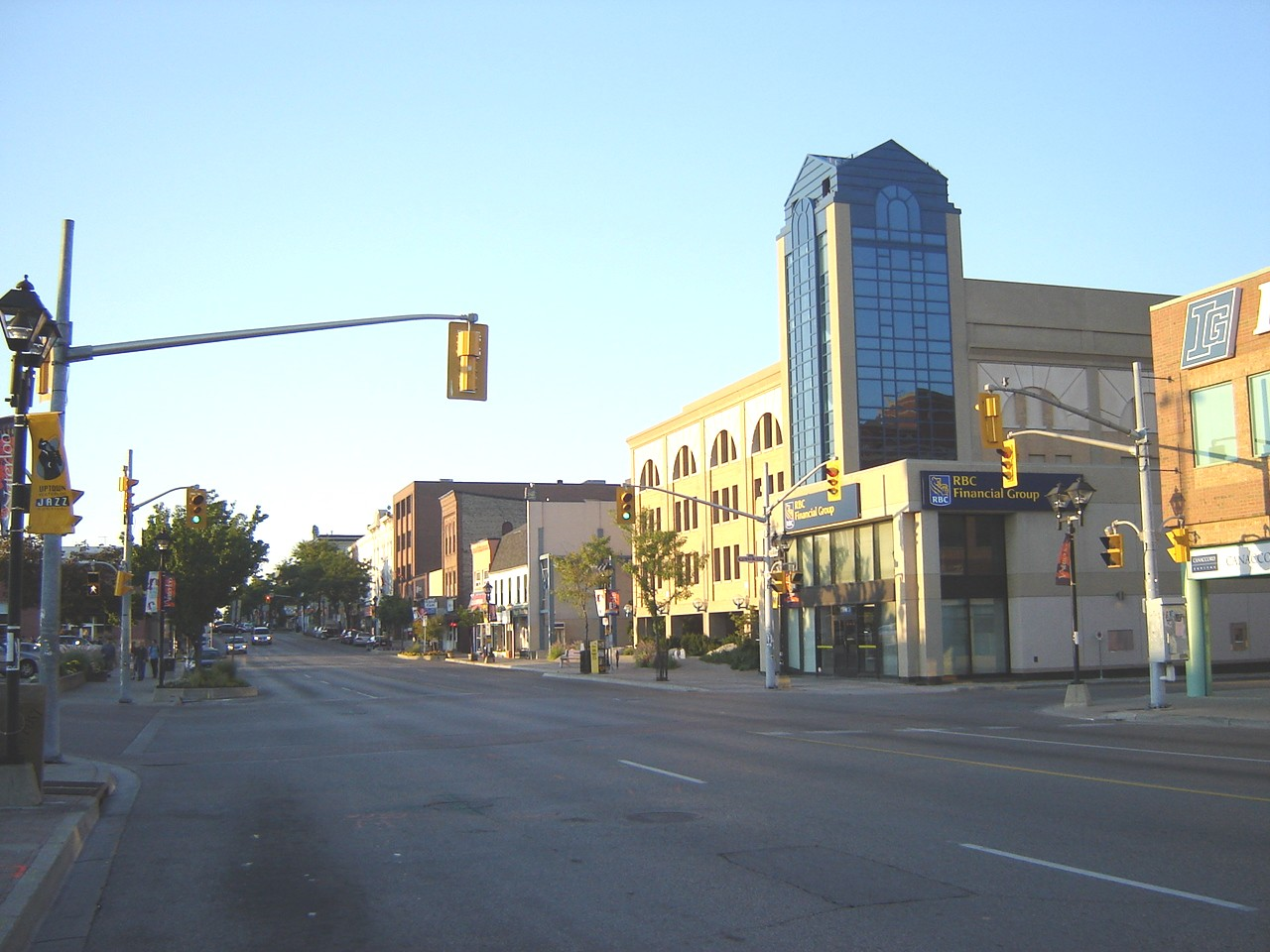 King Street South, at Willis Way, looking north toward Erb Street, in Uptown Waterloo, Ontario, Canada. A retake of image:Uptown waterloo.png in nicer weather.